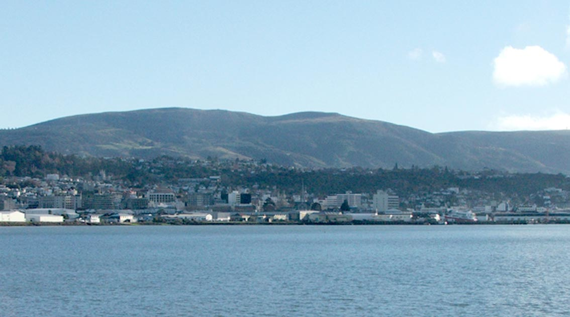 Flagstaff, a 620 metre hill which dominates central Dunedin, New Zealand.